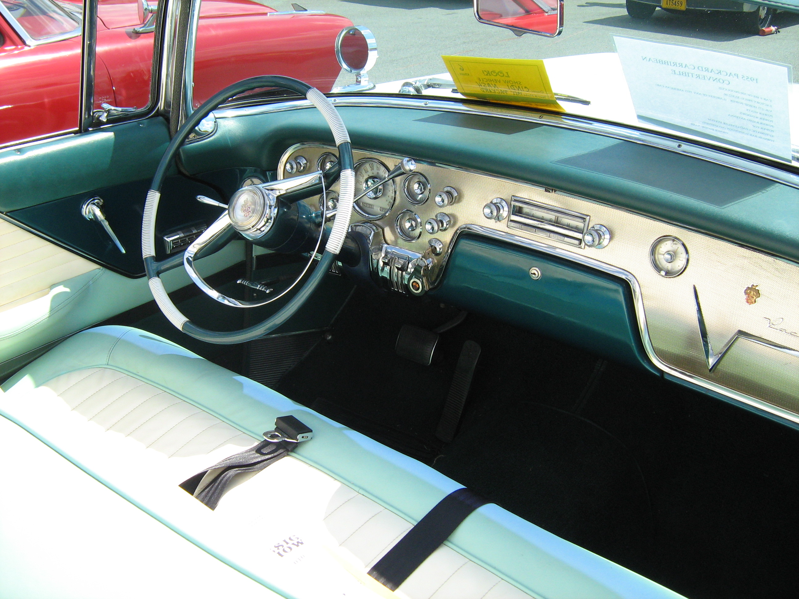 The Interior and dashboard of a 1955 Packard Caribbean convertible.